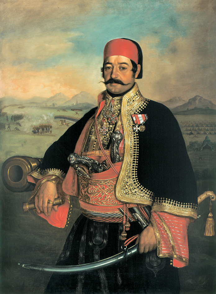 Portrait of Stevan Knićanin, 1849 oil painting by Uroš Knežević, held at the Gallery of Matica Srpska.